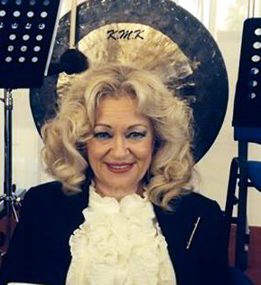 profesoresha e flautit